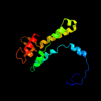 Secondary structure image